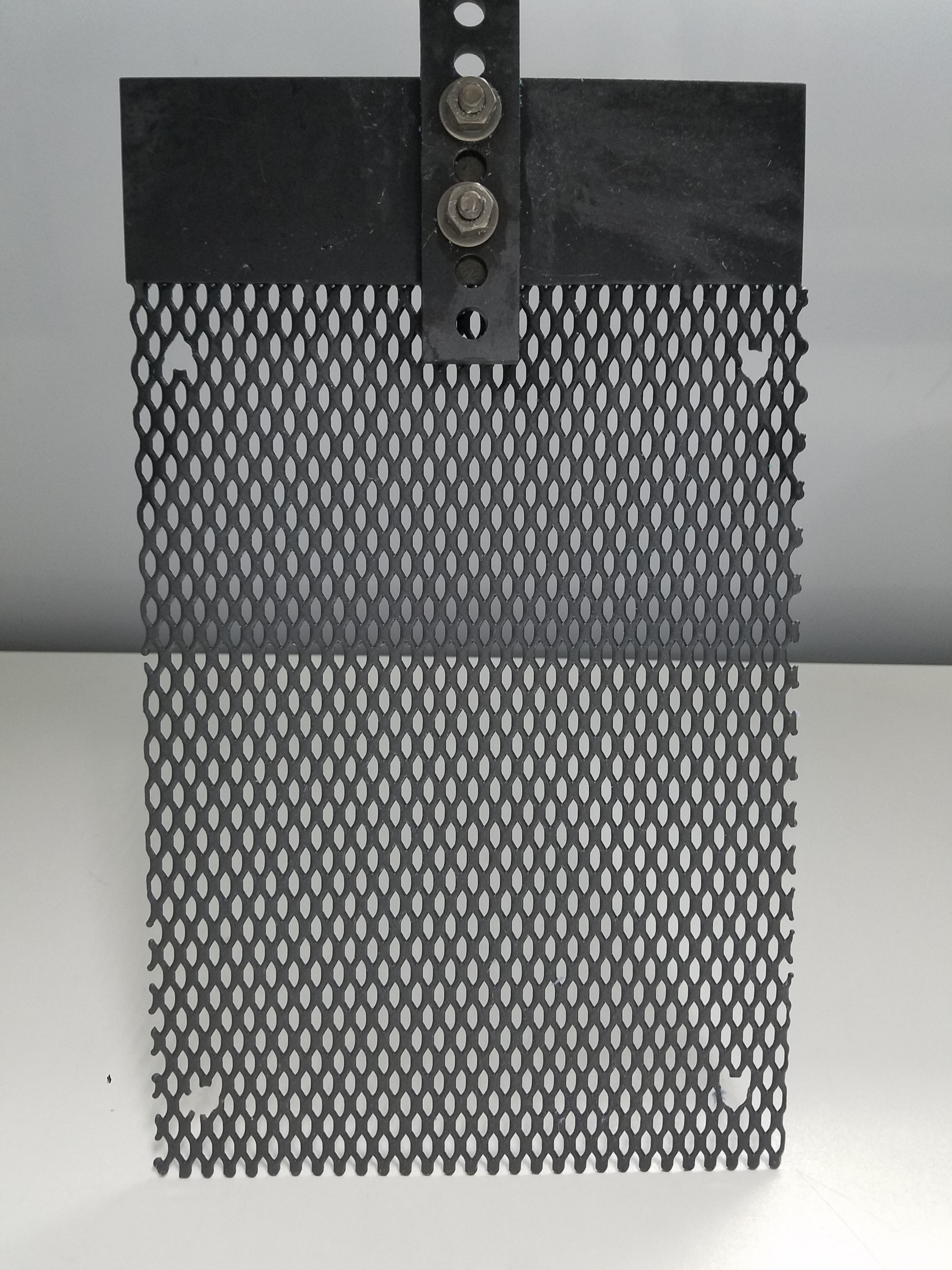 Photo of a mixed metal oxide electrode used as an anode (counterelectrode) for electroplating processes. Electrode consists of a titanium mesh coated in inert metal oxide and welded to a rack for use in electroplating baths.